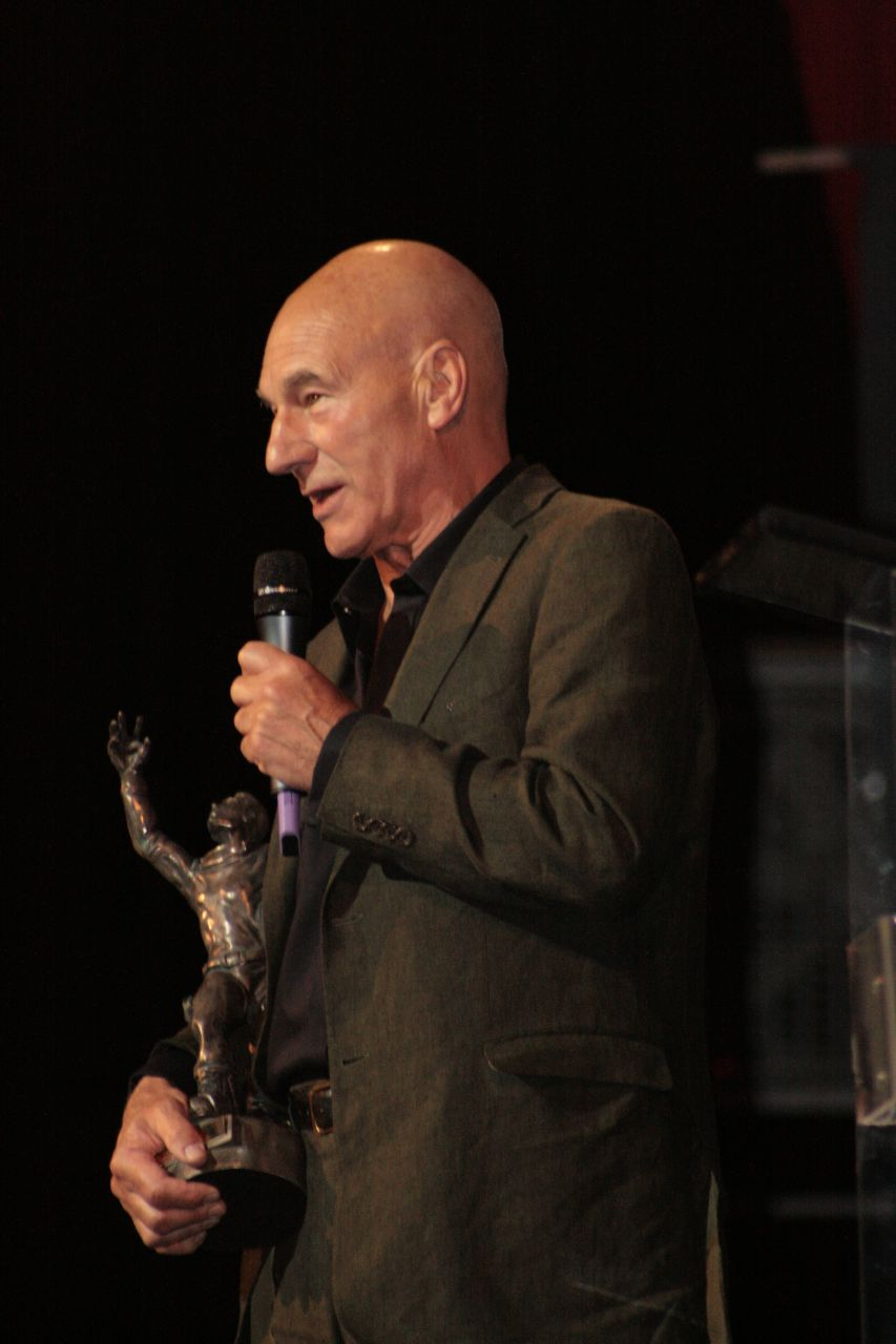 Patrick Stewart - Jules Verne Adventures Film Festival - 2007